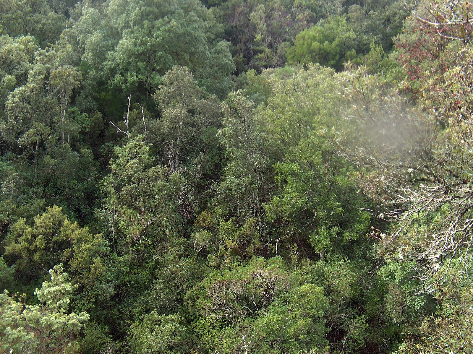 Mediterranean shrubland evolving to Mediterranean sclerophyllous forest